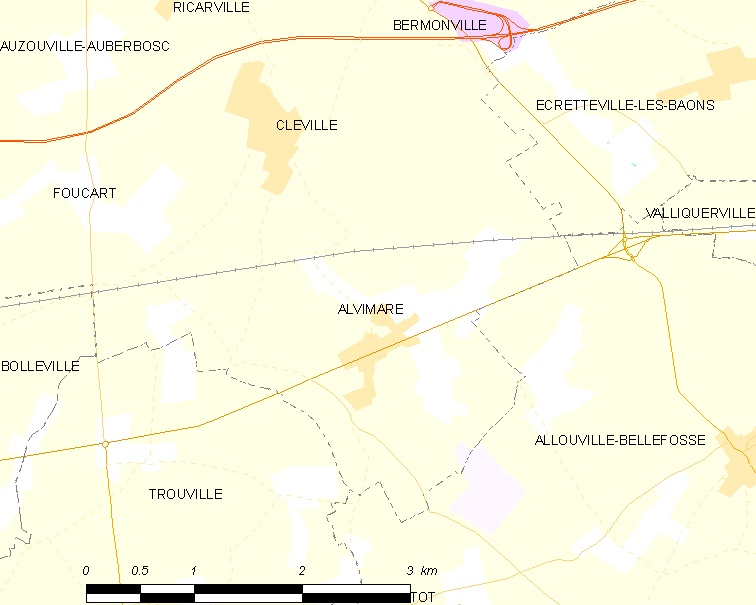 Map of French municipality Alvimare